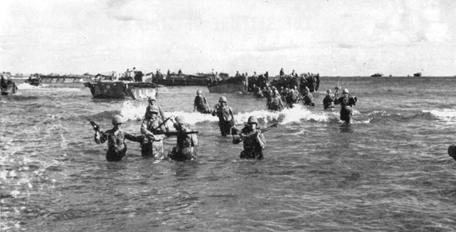 U.S. Marines have left the Amtracs wadding and ashore around the coral reef edge to overcome.